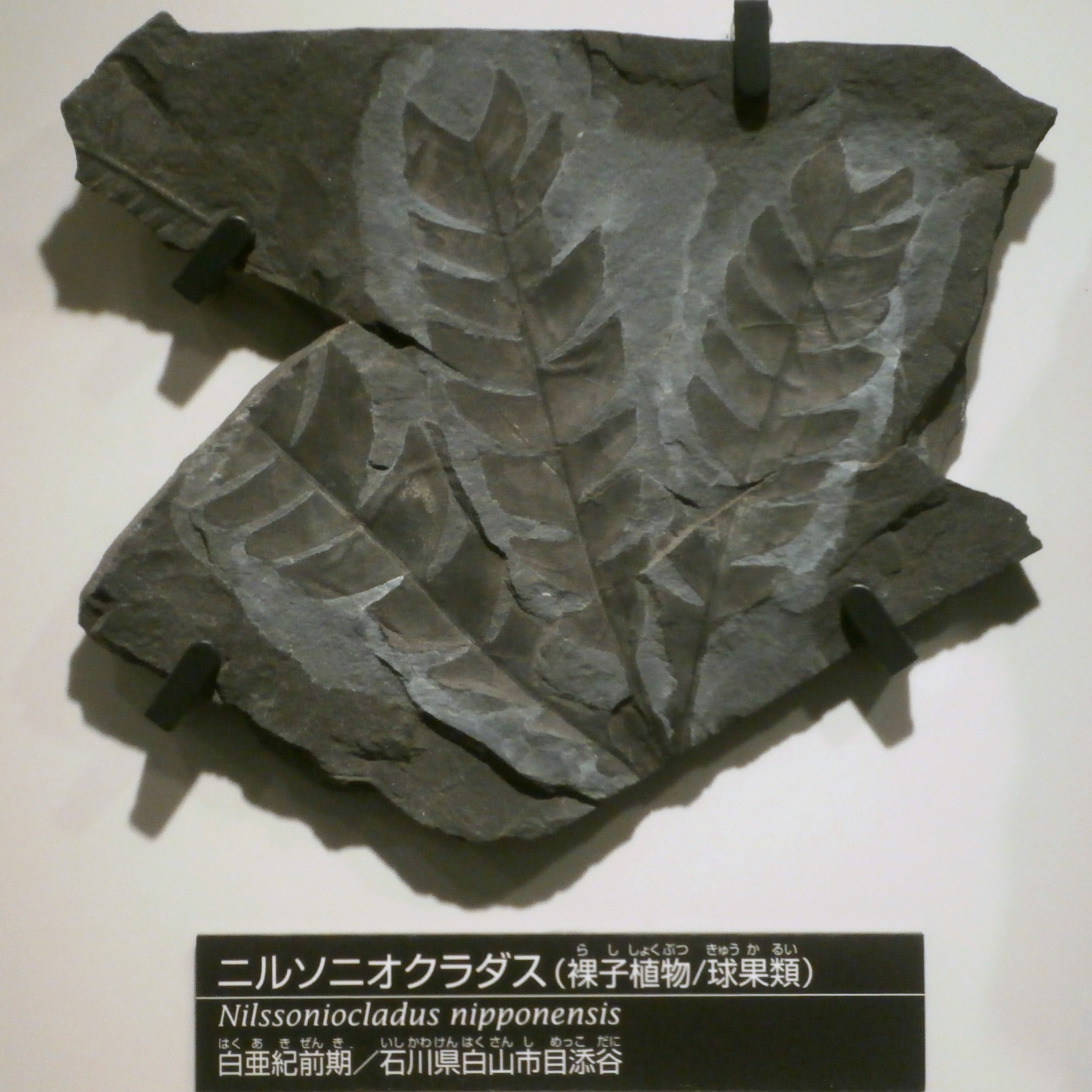 Fossil of Nilssoniocladus nipponensis. Gymnospermophyta, Cycadopsida. Early Cretaceous. Hakusan, Ishikawa, Japan. Exhibit in the National Museum of Nature and Science, Tokyo, Japan.